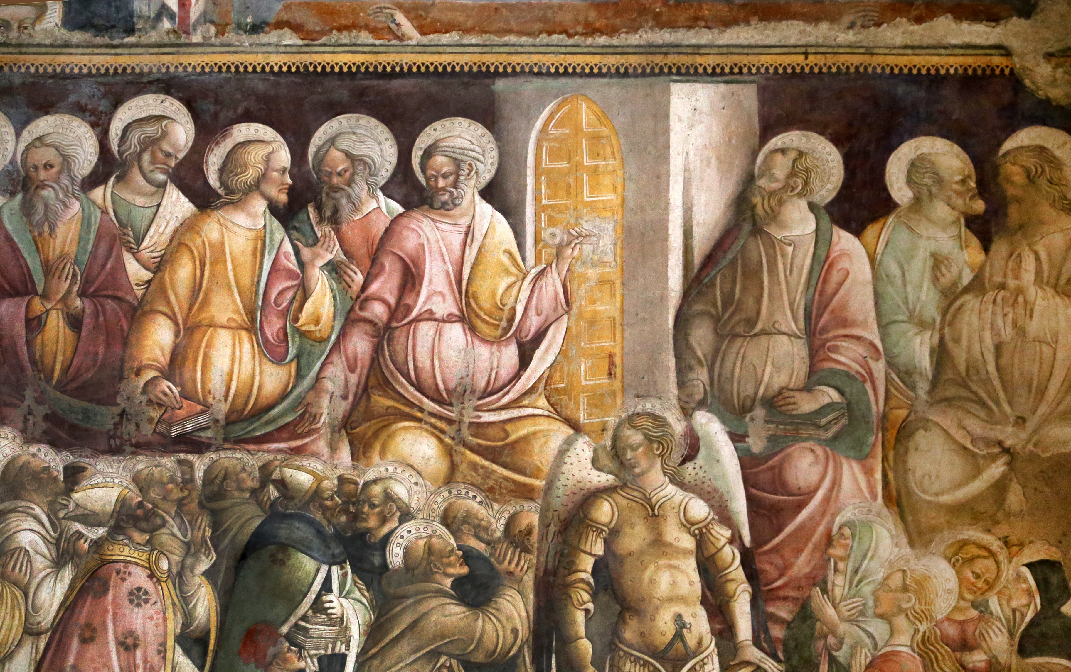 San Francesco (Terni)